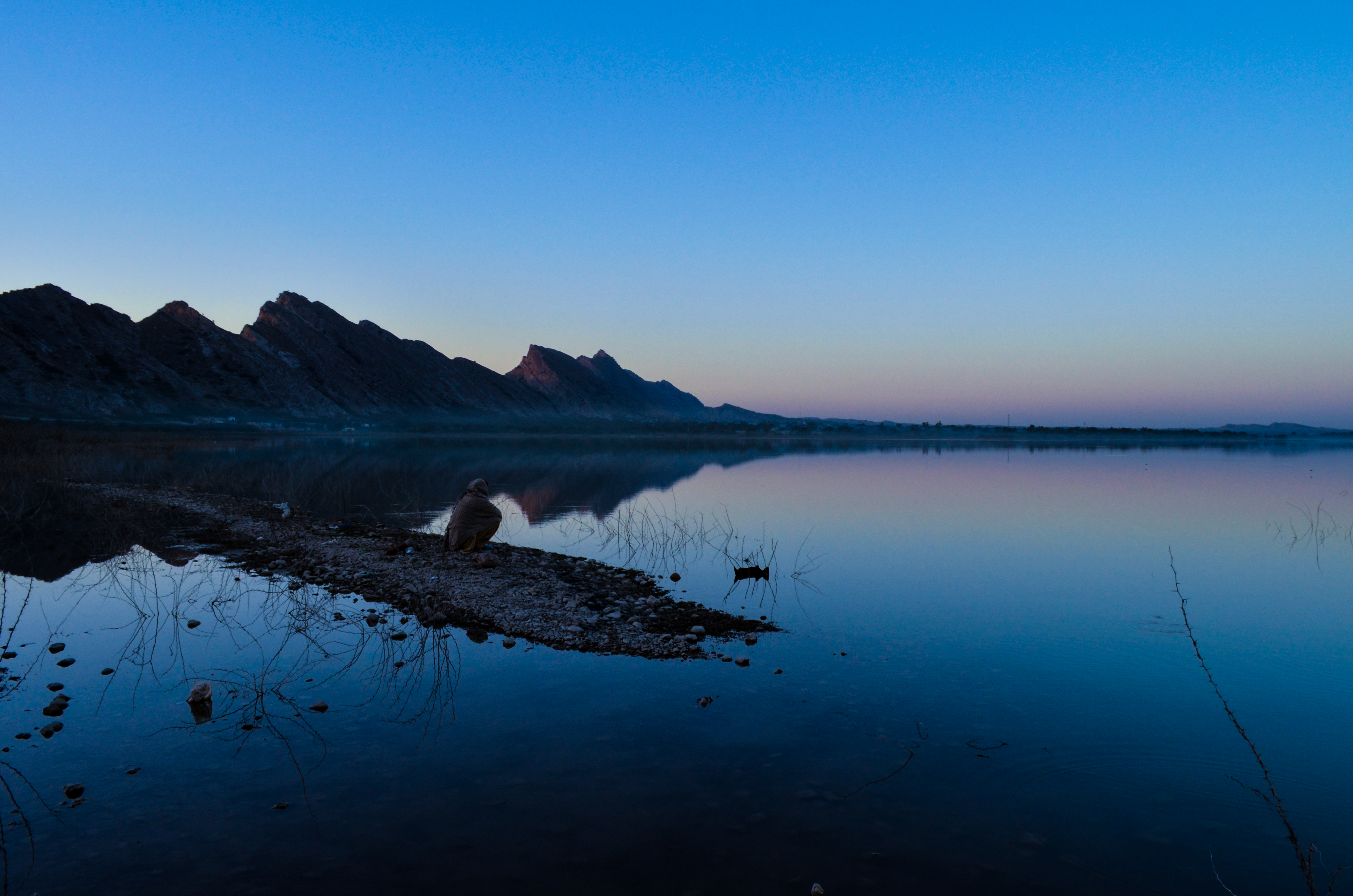 A beautiful view of Namal Lake located in Mianwali District.